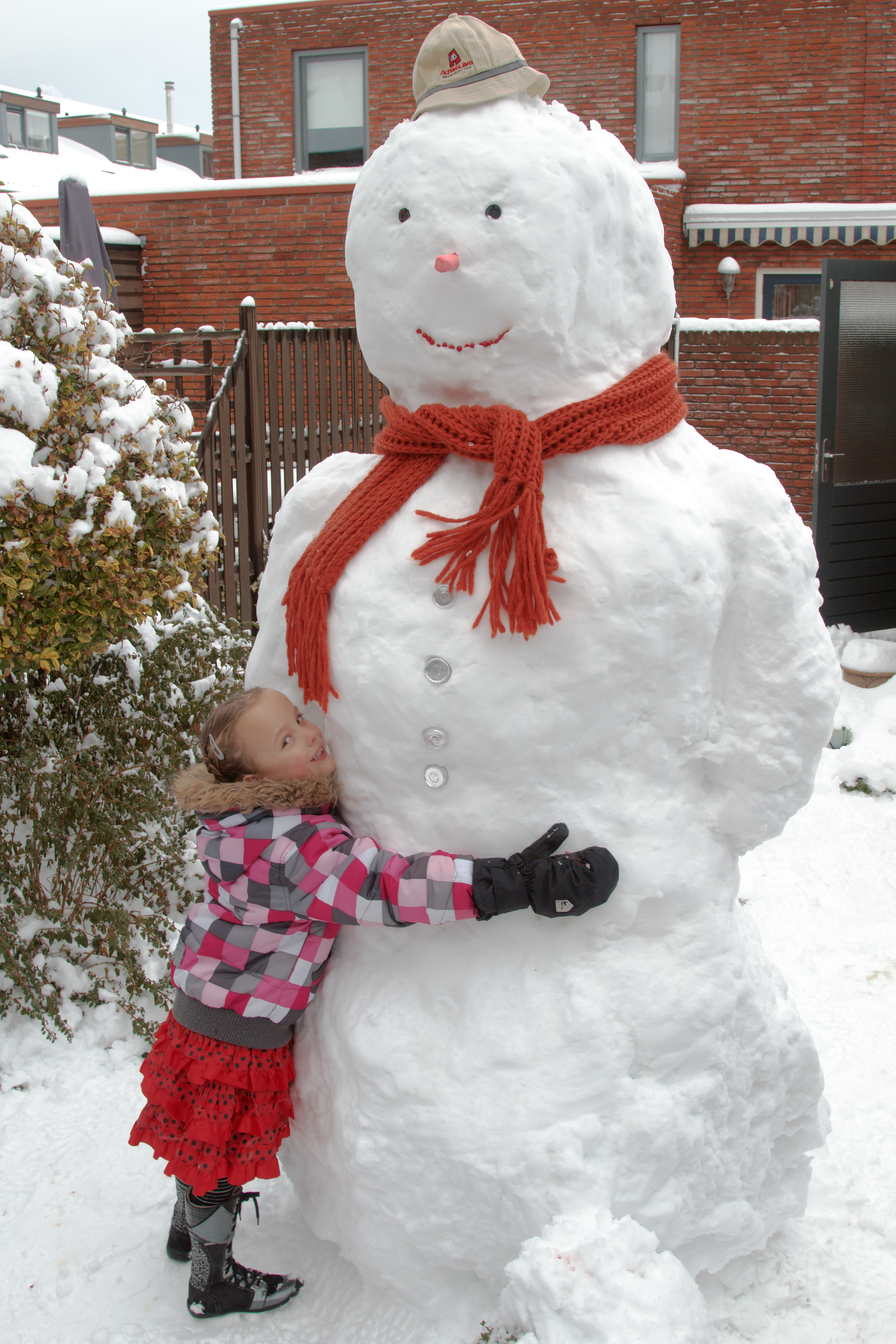 A large snowman with a small child in the Netherlands. The snowman is wearing a scarf and a hat.